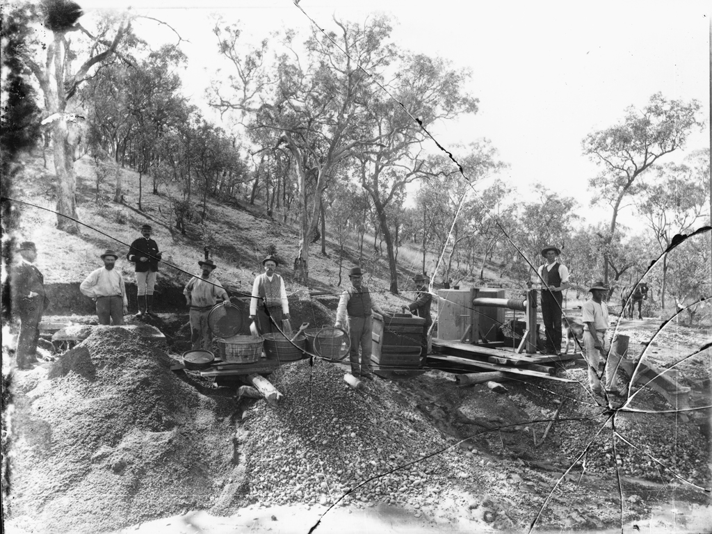 Format: Glass plate negative. Repository: Tyrrell Photographic Collection, Powerhouse Museum Part Of: Powerhouse Museum Collection General information about the Powerhouse Museum Collection is available at Persistent URL: [1] Acquisition credit line: Gift of Australian Consolidated Press under the Taxation Incentives for the Arts Scheme, 1985